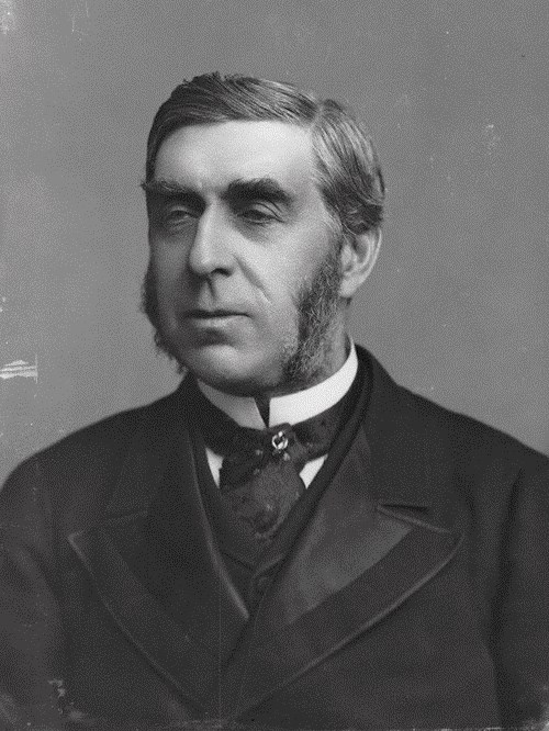 Portait of George Goschen, 1st Viscount Goschen